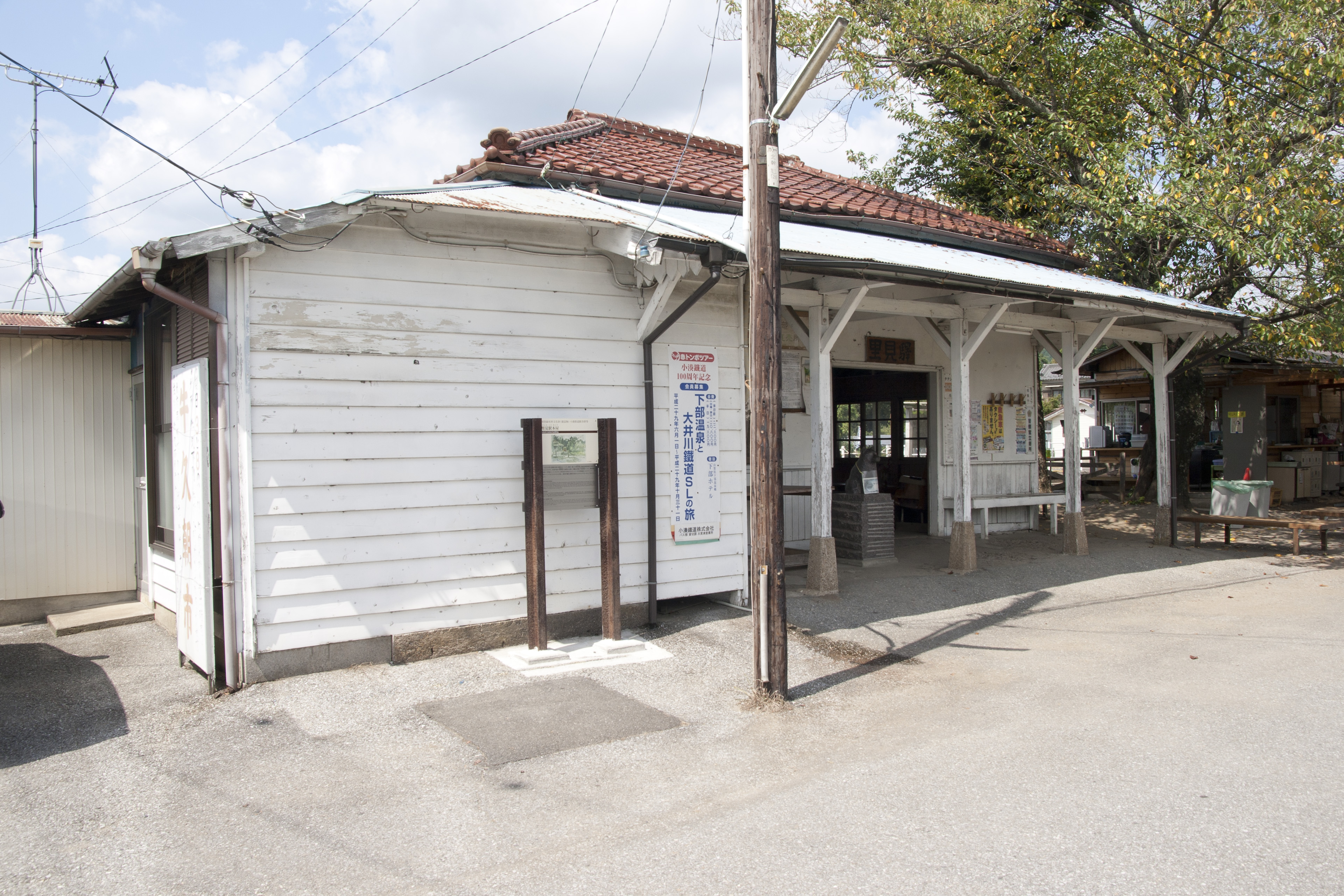 Satomi Station in Ichihara City, Chiba Prefecture, Japan